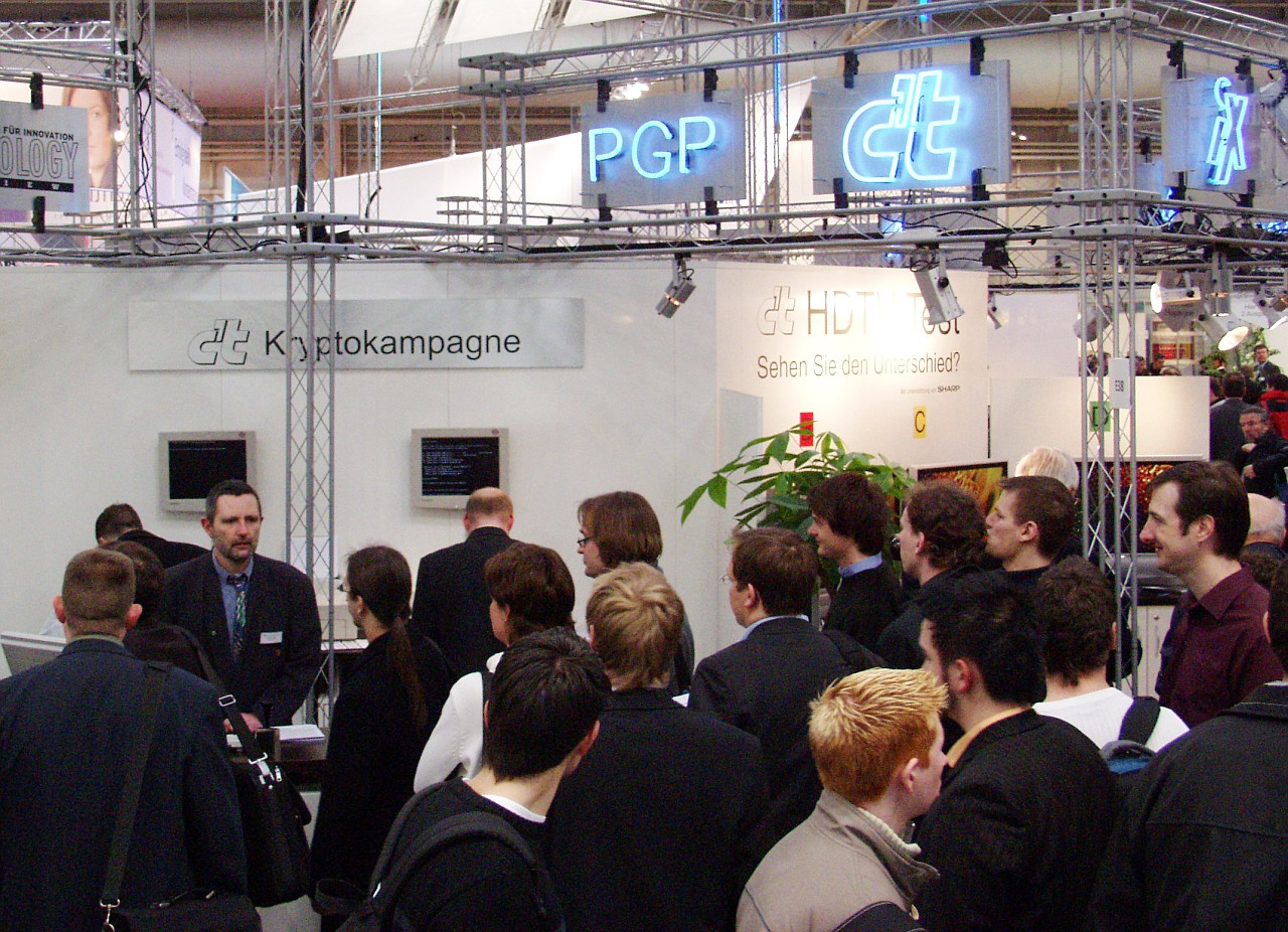 Certificate authority (CA) campagne of the German computer magazine c't on CeBIT 2006